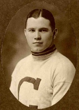 Duncan Munro of the Toronto Granites hockey club in the 1921–1922 season.